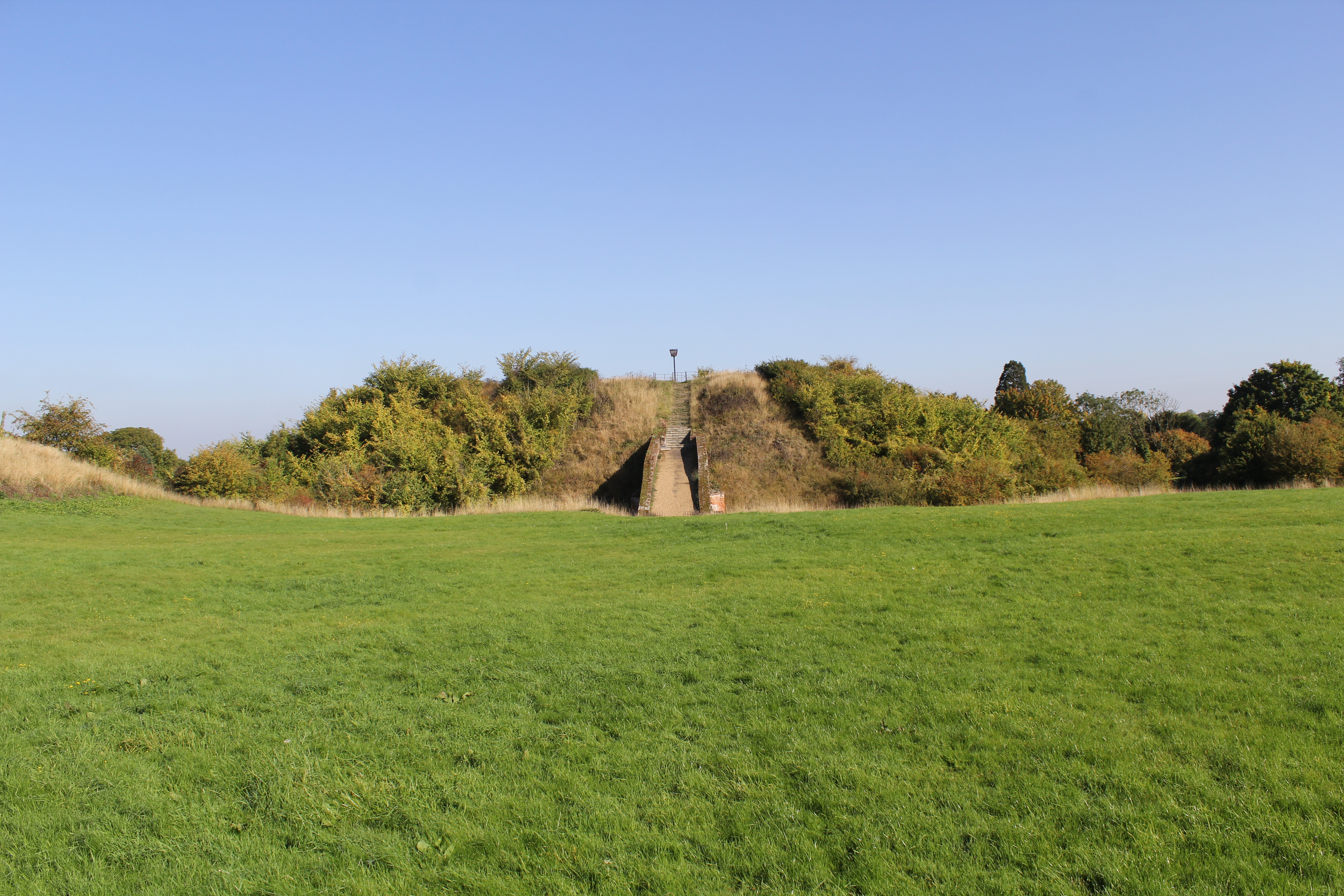 The motte of Pleshey Castle, seen from the southern bailey